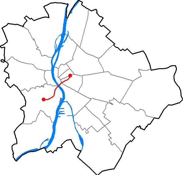 Route of underground M4 in Budapest.